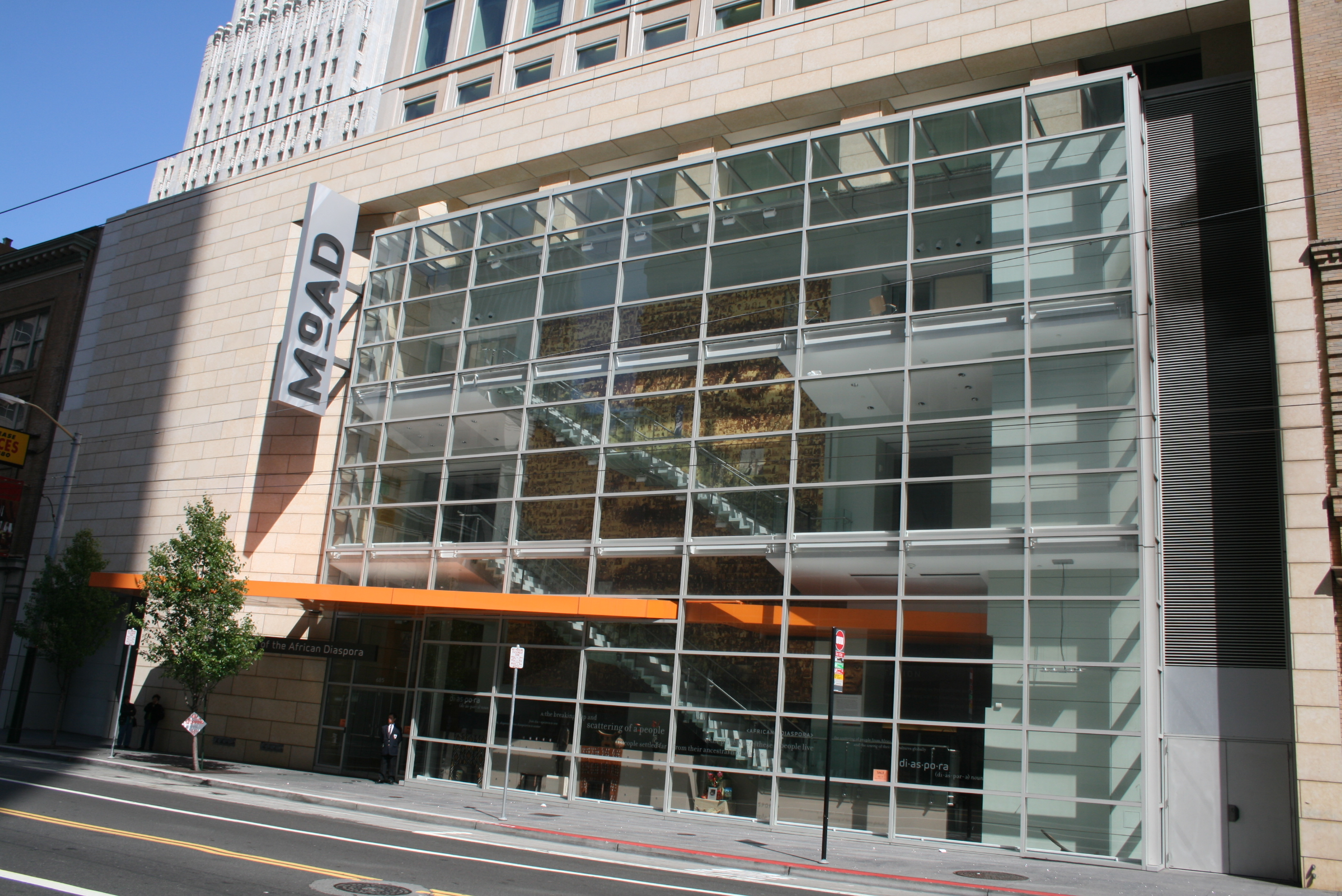 Museum of the African Diaspora, 685 Mission Street, San Francisco, California